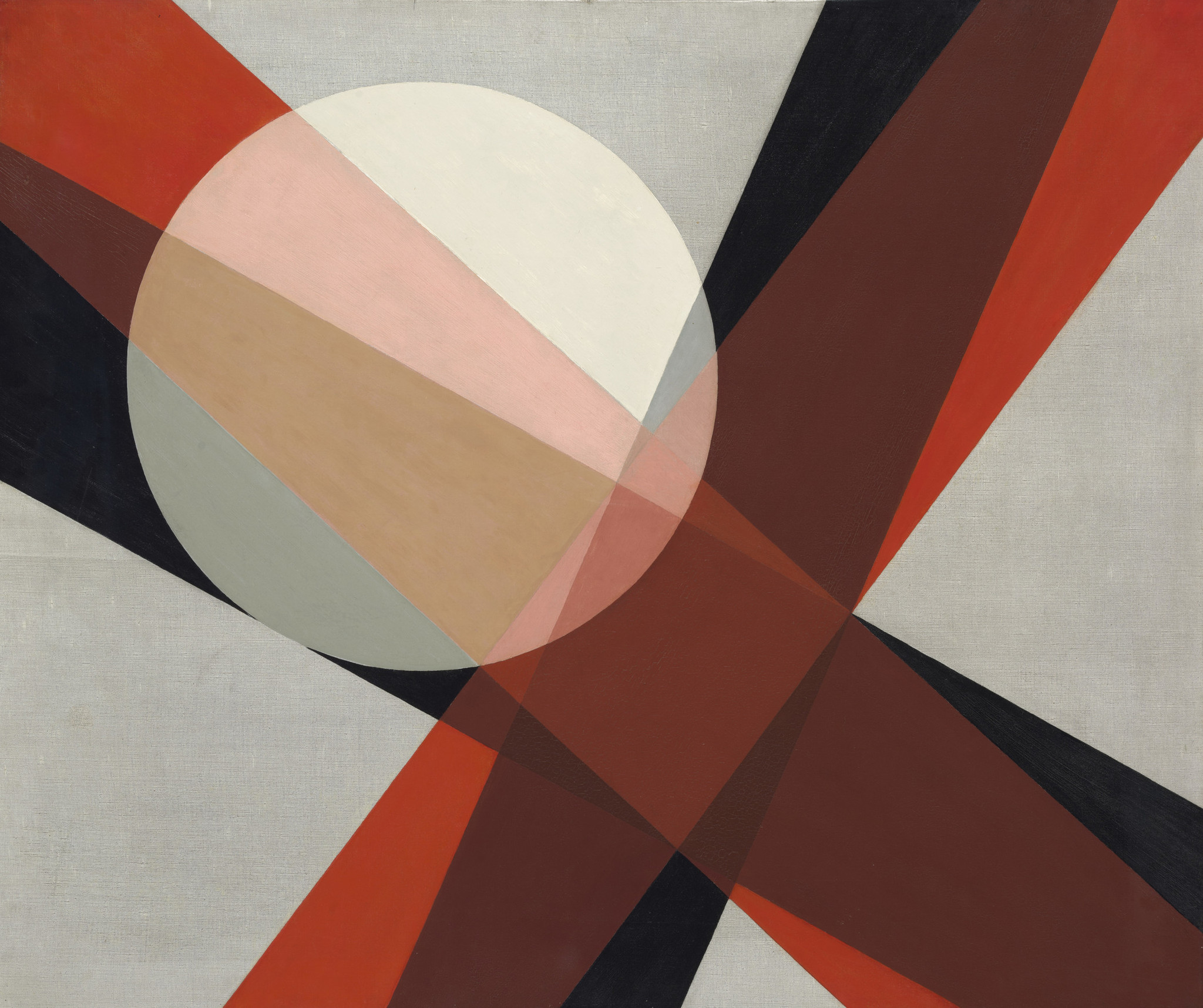 A 19, 1927 by Laszlo Moholy-Nagy, oil on canvas, Los Angeles County Museum of Art